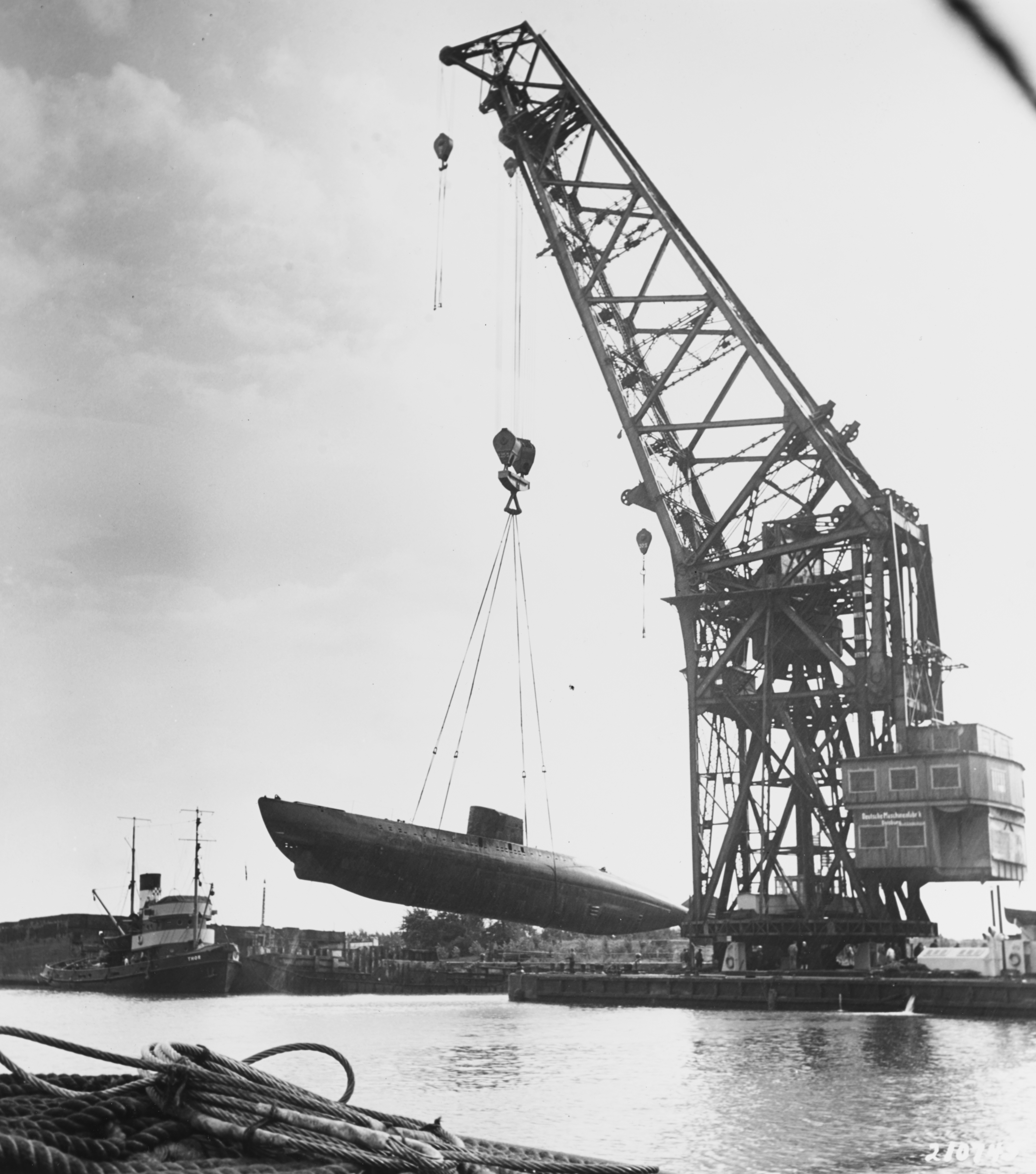 Title: German Type XVIIB Submarine, August 11, 1945 Caption: German Type XVIIB Submarine is lifted from the water by a large floating crane, at Bremerhaven, Germany, August 11, 1945. Boat is probably U-1406 or U-1407. They were small, fast submarines, powered by Walter Turbines. Note large Tug THOR at left. Photographed by Private First Class W. Gedge.